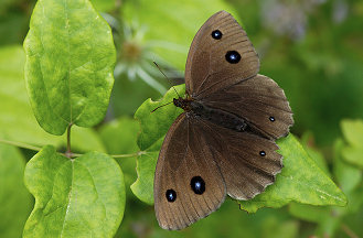 A female Minois dryas (Nymphalidae Satyrinae Satyrini). The shot was taken in Hungary